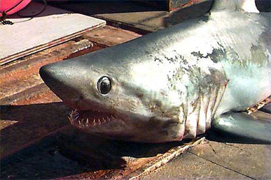 The head of a porbeagle shark (Lamna nasus)